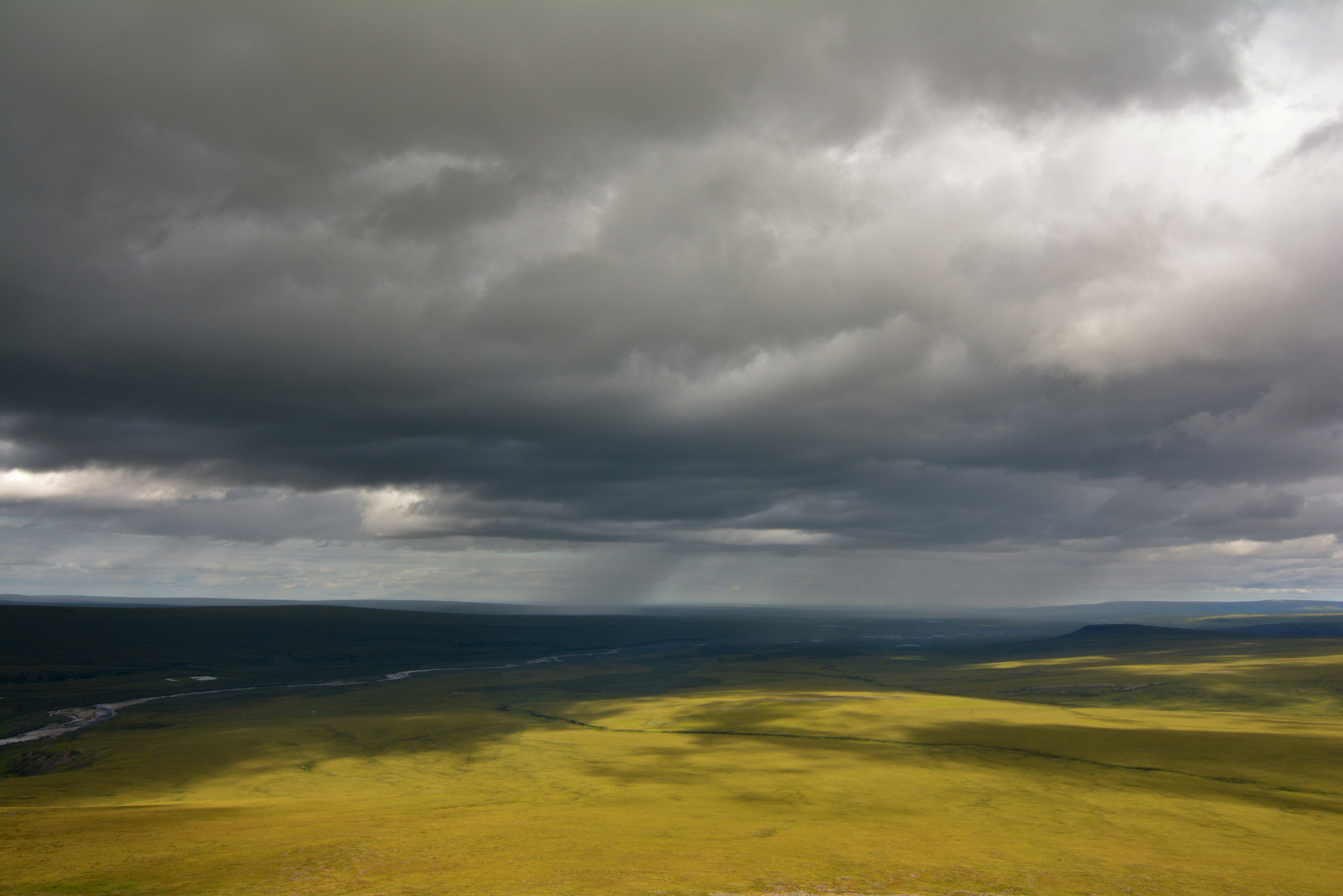 Much of the North Slope of Alaska is characterized by low, sweeping tundra hills, and a complete absence of trees.